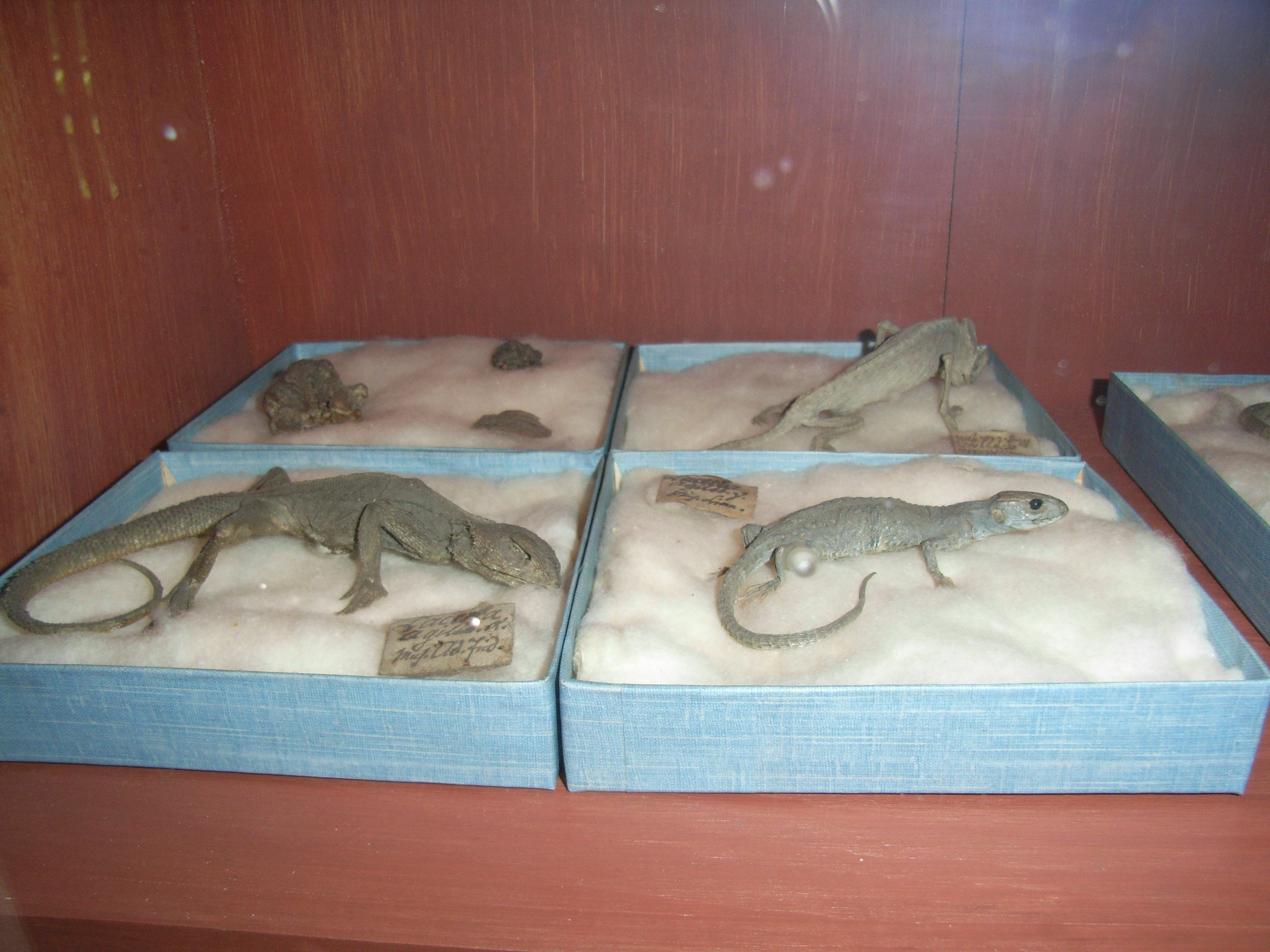 Linne Museet Uppsala